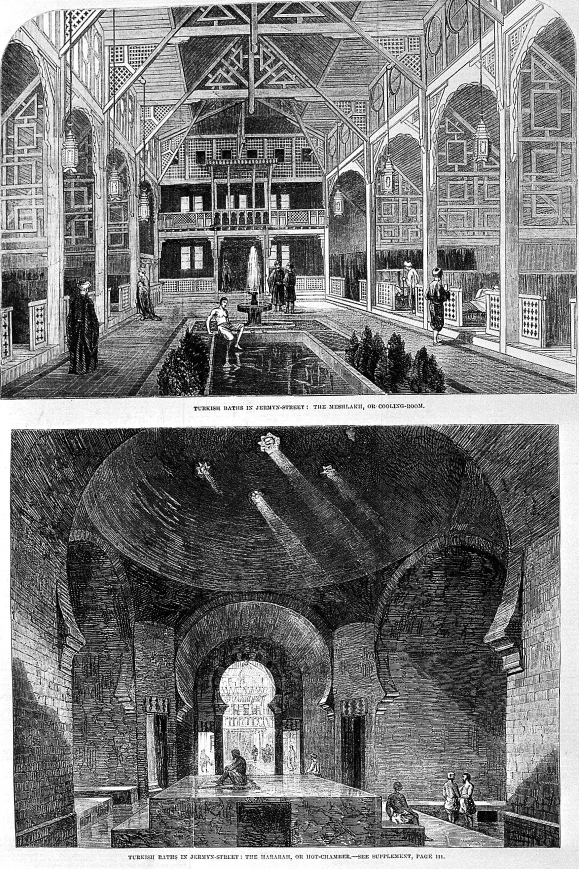 The cooling room and the hot-chamber General Collections Keywords: turkish baths; Balneology